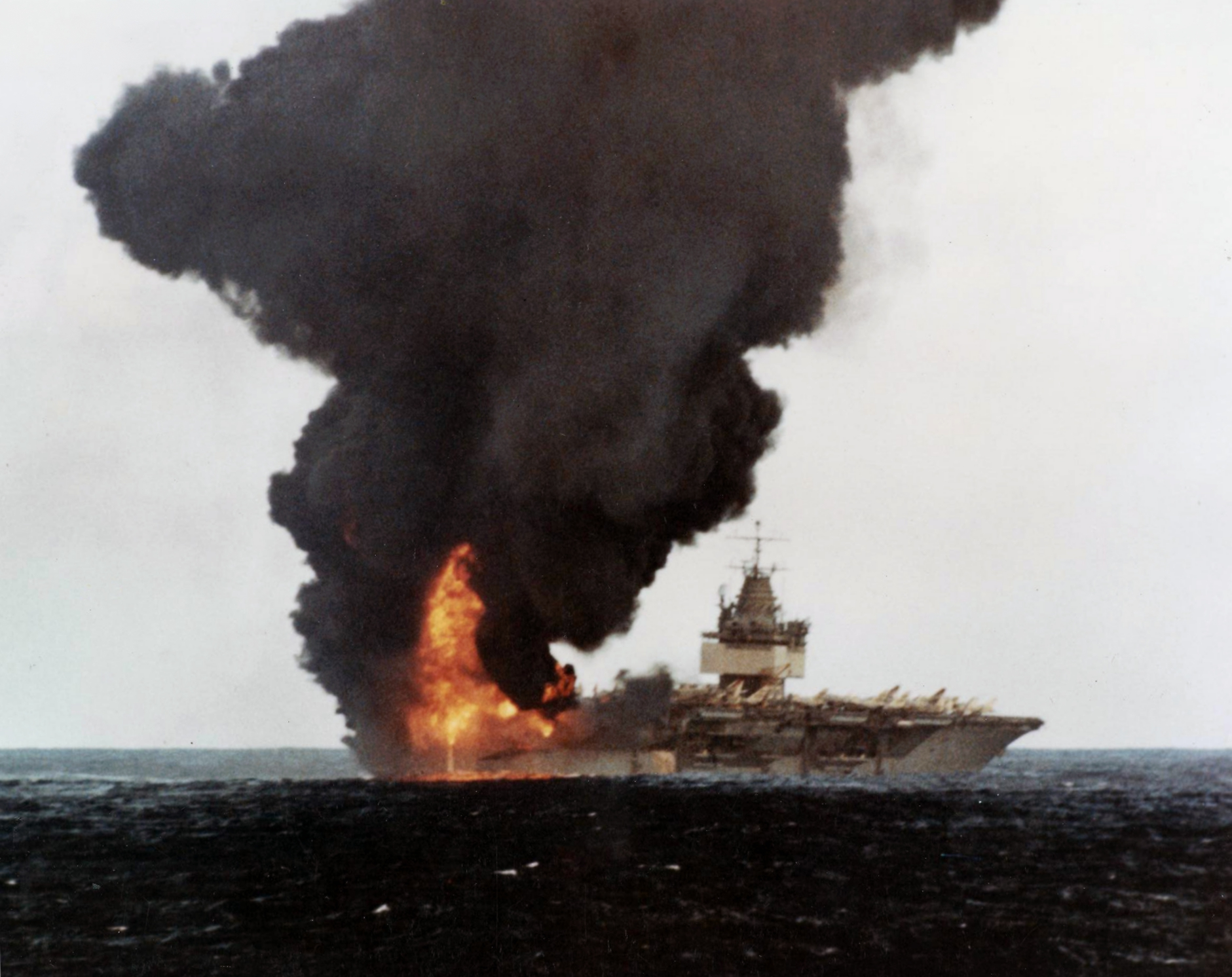 Black smoke rises from the U.S. Navy aircraft carrier USS Enterprise (CVAN-65) in the aftermath of a fire that occurred while she was underway conducting air operations near Hawaii (USA) on 14 January 1969. The massive fire started when a Zuni rocket accidentally exploded under the wing of an F-4. Some of the subsequent 18 explosions were 500-lb. bombs cooking off in multiples, leaving 20-foot holes in the armored flight deck. Losses totalled 28 dead, 343 wounded, and 15 aircraft destroyed.